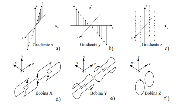 Diagrama esquemático dos campos de gradiente magnético nas direções três direções: x, y, z (a-c), e as bobinas que são utilizadas para gerá-los (d-e).